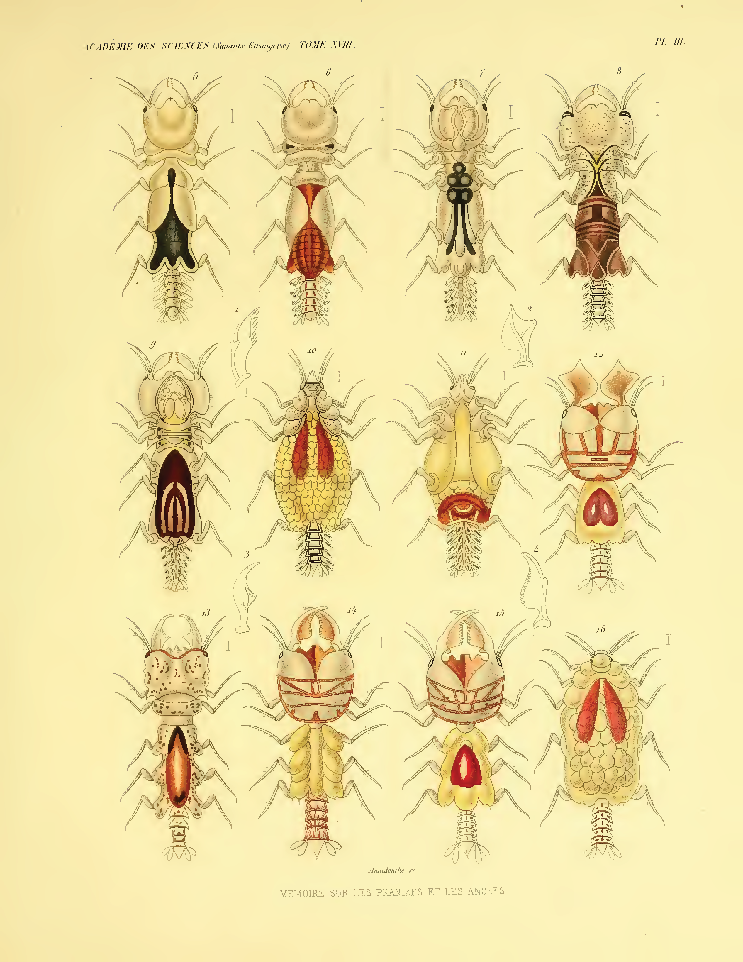 Plate from: Hesse, Eugène (1864). Mémoire sur les pranizes et les ancées et sur les moyens curieux à l'aide desquels certains crustacés parasites assurent la conservation de leur espèce. Extrait du Tome XMII des Mémoires Présentés par Divers Savants à l'Institut Impérial de France. Paris, J. B. Baillière et Fils, Libraire de l’Académie Impériale de Médecine. BHL